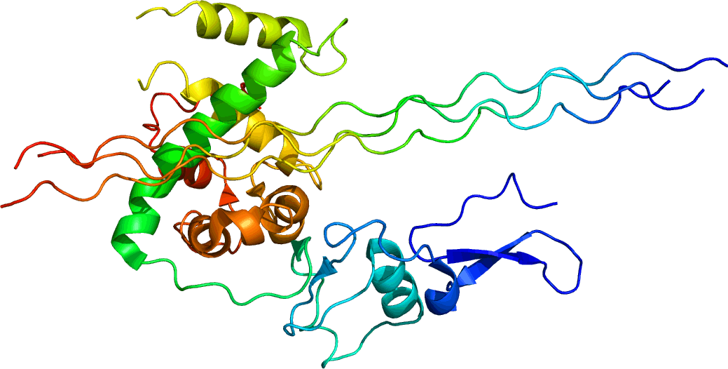 Structure of protein COL3A1.Based on PyMOL rendering of PDB 2V53.